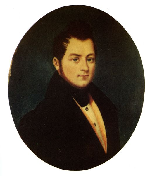 Camillo Benso, count of Cavour (1810-1861) young